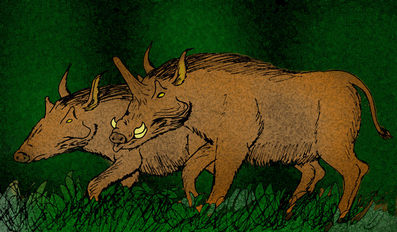 Reconstruction of the female and male (with the horn) Miocene pig, Kubanochoerus gigas. Fossils have been found throughout Eurasia, from Greece to China.